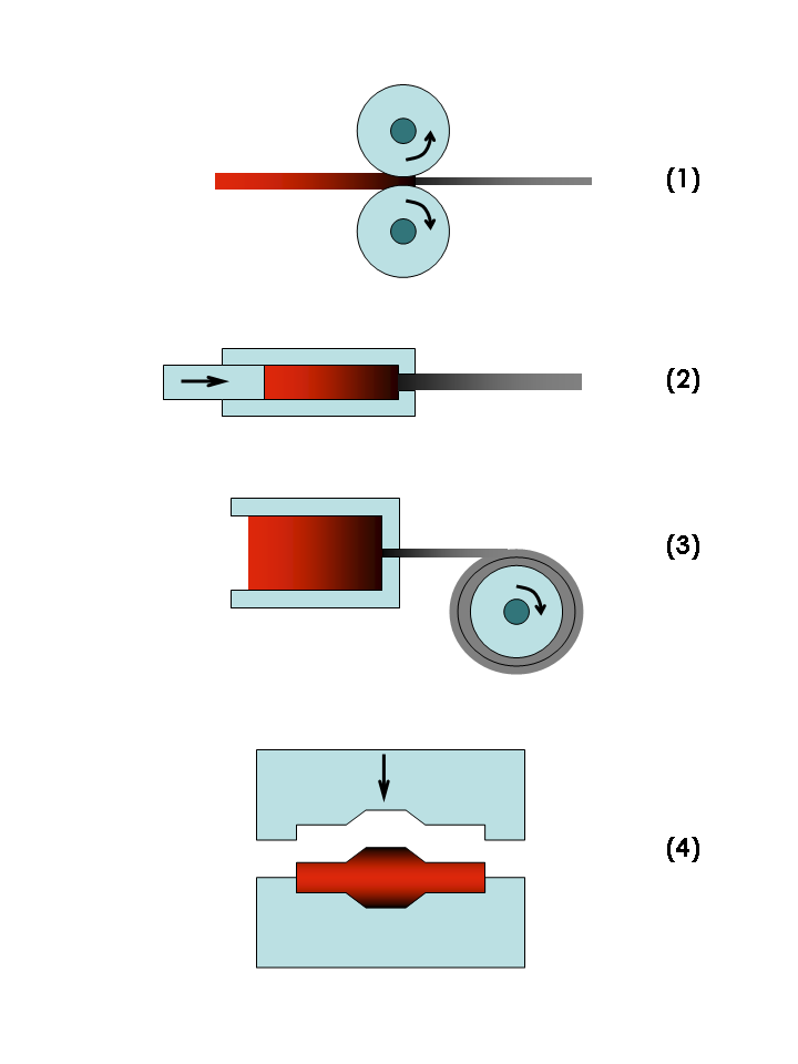 Metalworking processes